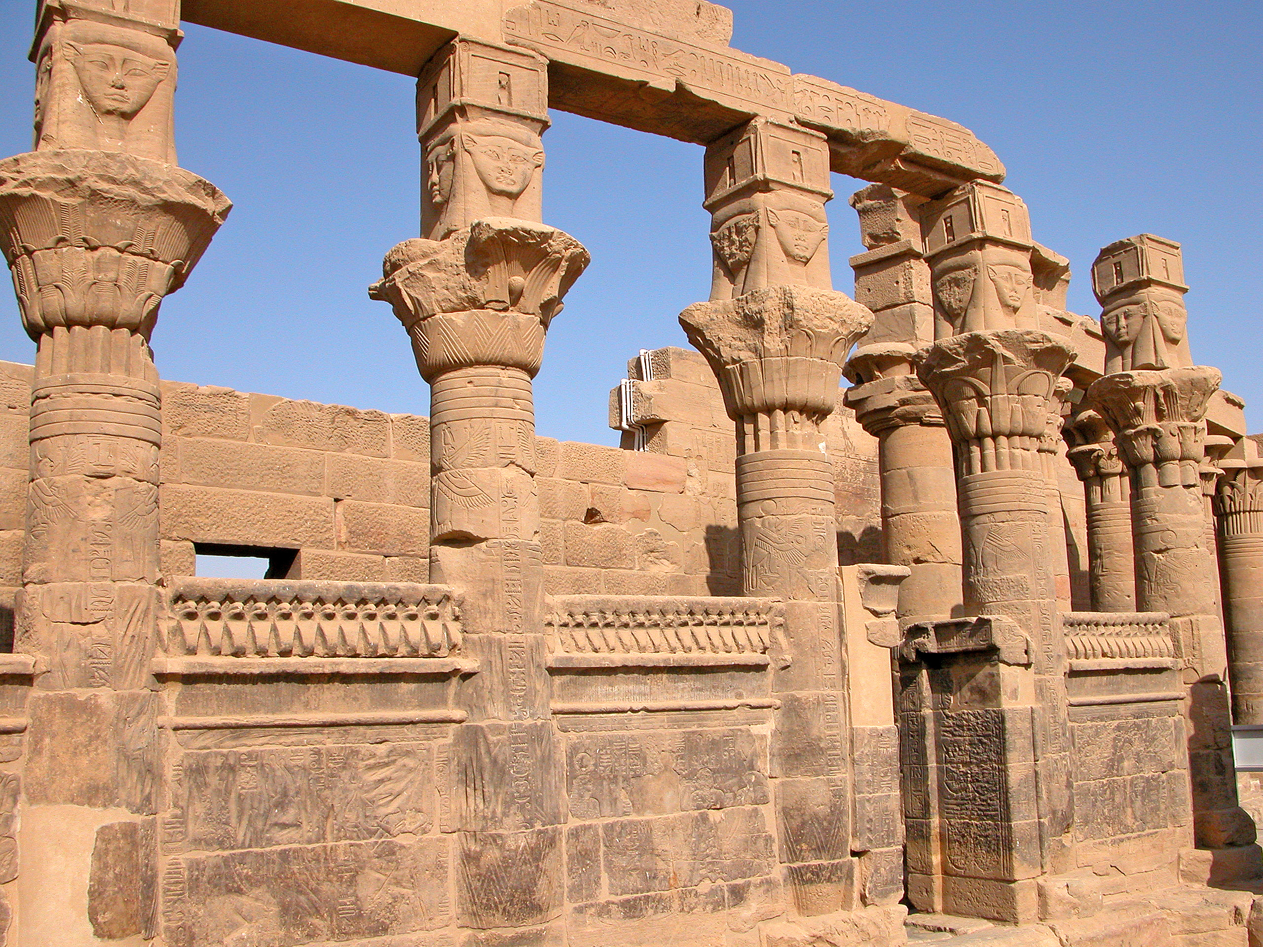 Vestibule of Nectanebos I at Philae with Hathor heads on the top of the columns. Aswan, Egypt This is the entrance for the Island of Philae. The Vestibule of Nectanebos I is a logical beginning for an exploration of Philae. It is also where boats usually land on the island. This temple dating to the 30th dynasty was dedicated to Nectanebos "Mother" Isis. There are few other antiquities on the island that are not Ptolemaic or Roman. There was once a double stairway leading to the vestibule, but they were washed away by the Nile, along with the temple it once led to. It once had 14 columns, but today there remain only six. The vestibule itself was rebuilt by Ptolemy II Philadelphos. Some architectural styling of this monument date to the 3rd Dynasty. There are two rows of colonnades which form a walkway to the first pylon of the Temple of Isis.